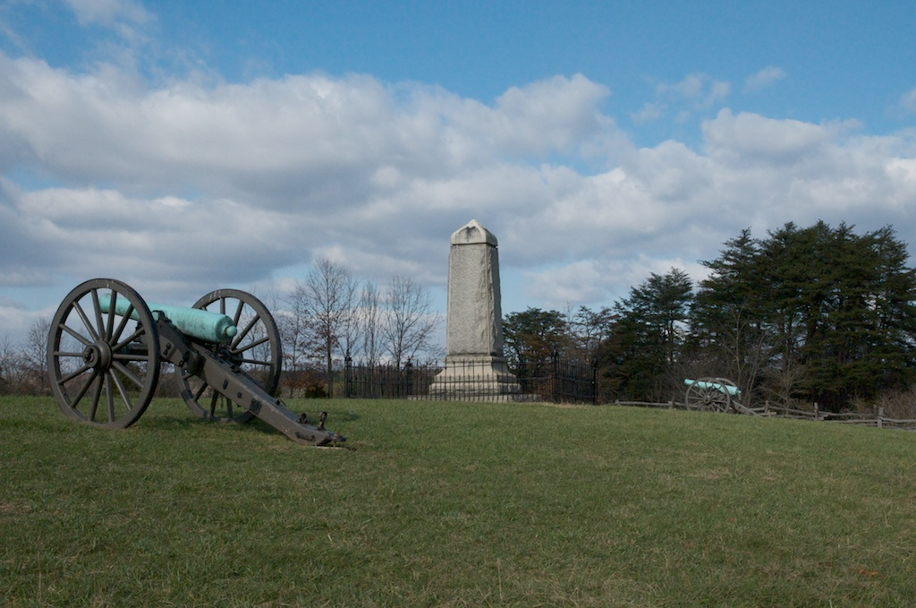 A battlefield off of US-29 in Gainesville, Virginia.